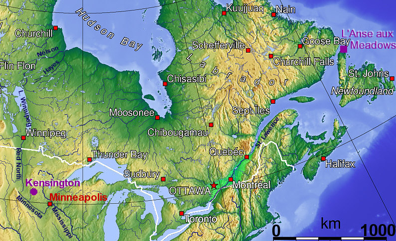 ==The location of the Kensington Runestone in relation to historic river navigations.